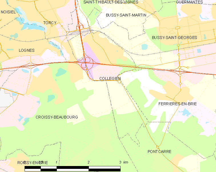 Map of French municipality Collégien